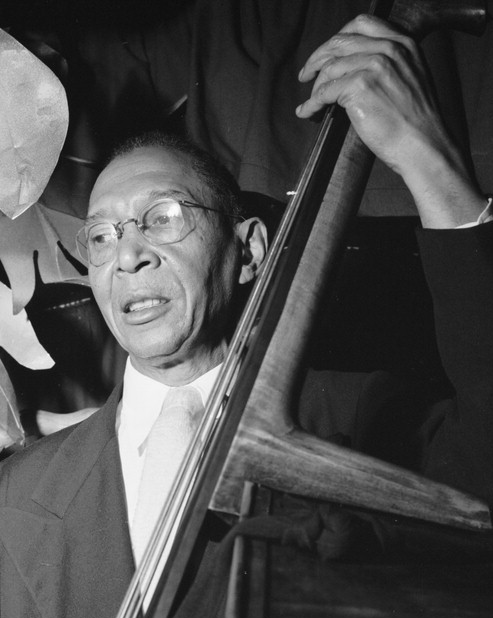 Portrait of Pops Foster, Ole South, New York, N.Y.